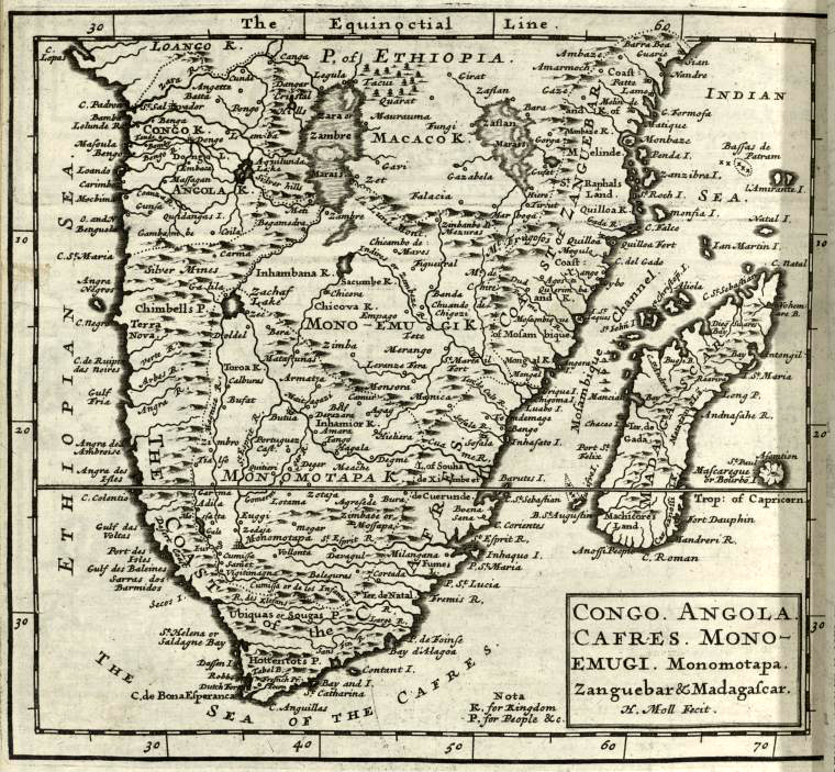 Congo. Angola. Cafres. Monoemugi. Monomotapa. Zanguebar & Madagascar. (1701)